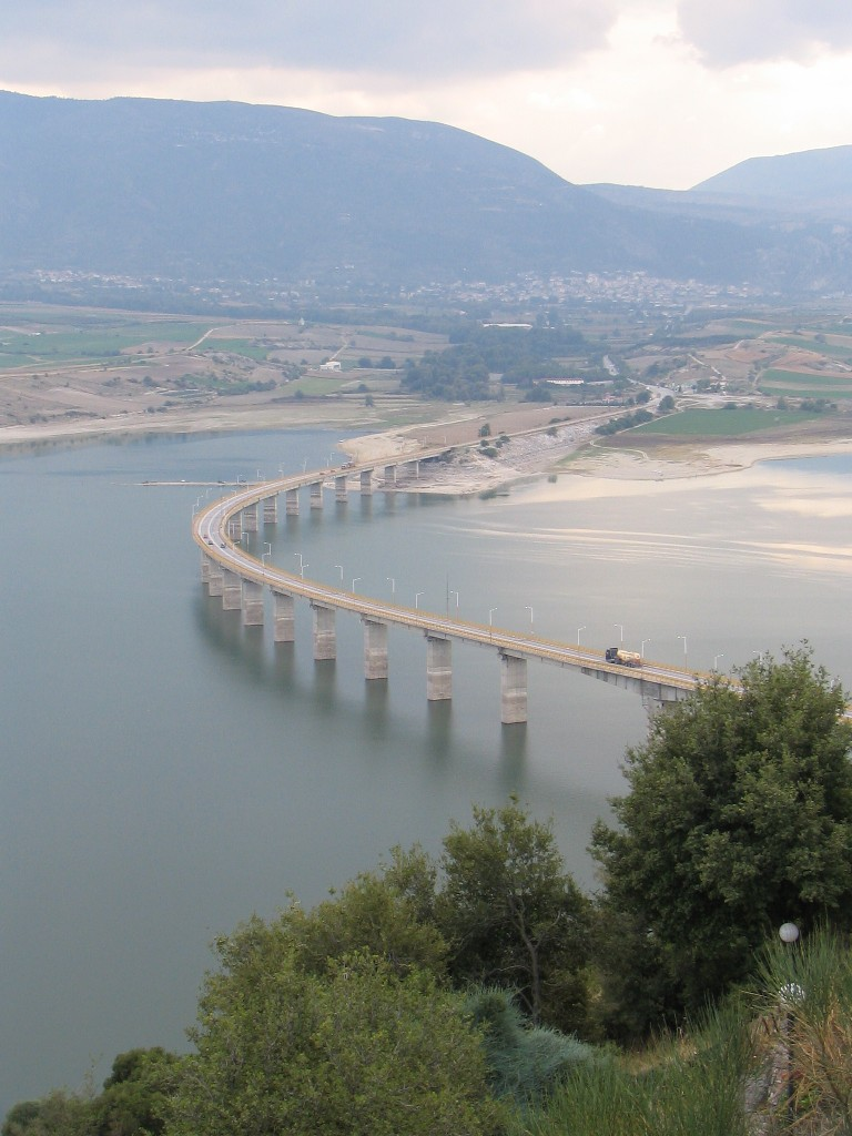 The Servia bridge over Lake Polyfytos, artificial lake of river Aliakmonas south of Kozani and north of Servia. National Road 3 crosses the lake by this bridge.